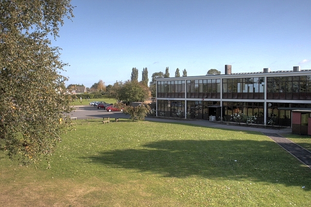 Allertonshire School